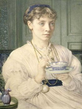 Georgiana Burne-Jones, around 1870, by Edward Poynter he died 1919.